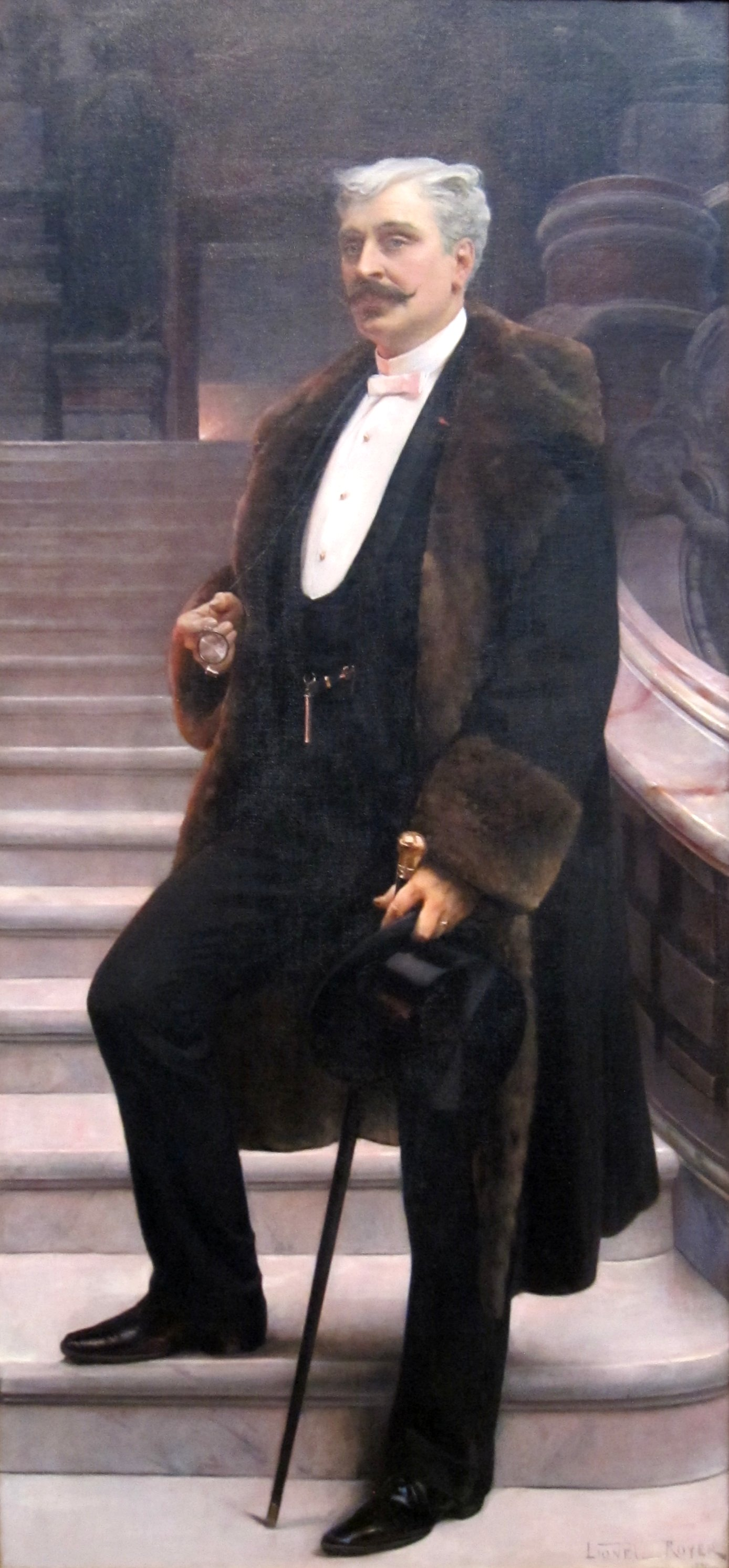 Portrait of Comte d'Adhémar de Cransac, oil on canvas painting by Lionel-Noël Royer, c. 1890, Dayton Art Institute, accession 1998.18